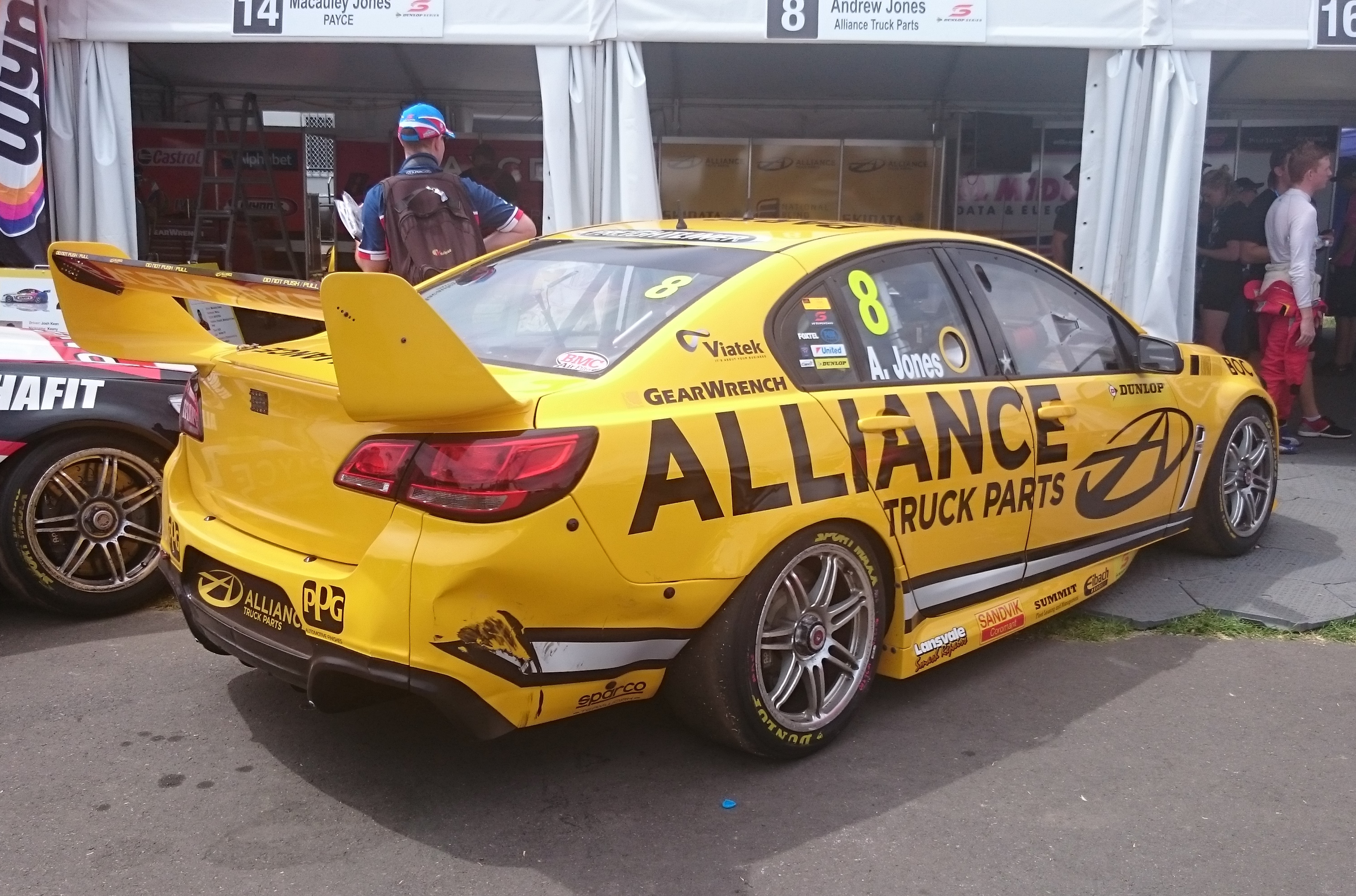 The Holden Commodore VF of Andrew Jones at the Adelaide Parklands Circuit for the open round of the 2016 Dunlop Series. The car, which was prepared by Brad Jones Racing, was competing under the Alliance Truck Parts Racing name.